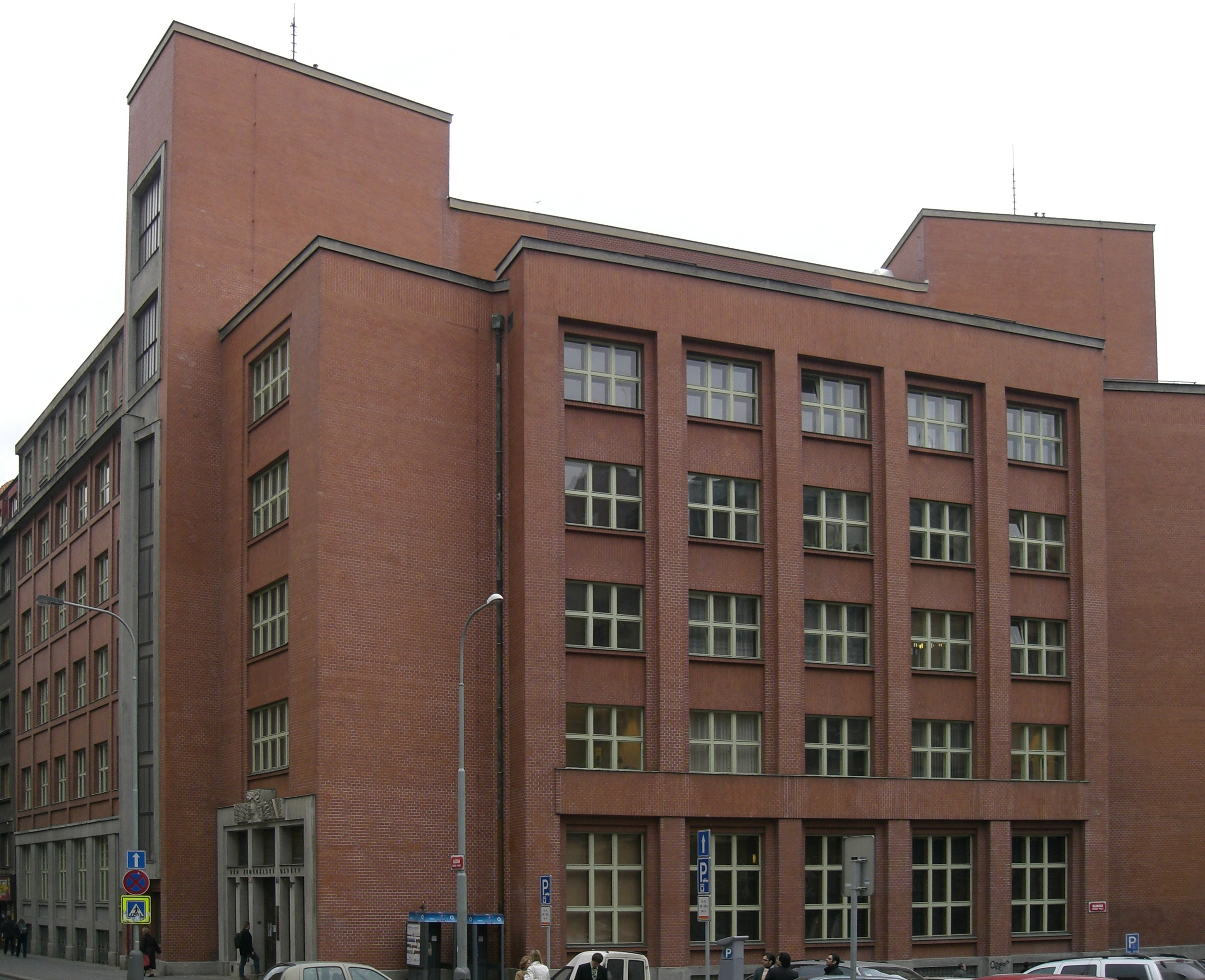 Zemědělská a potravinářská knihovna, Prague, Czech Republic